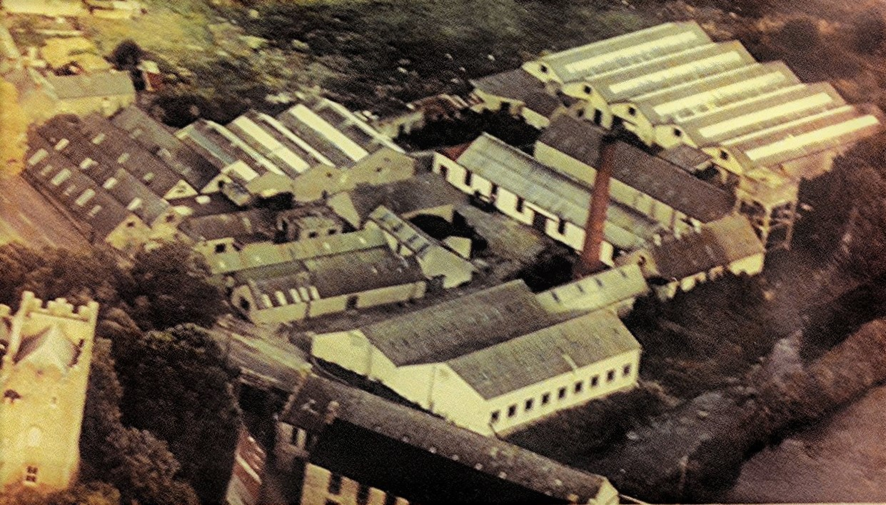 Aerial photograph of Ardfinnan Woollen Mills, Tipperay, Ireland.